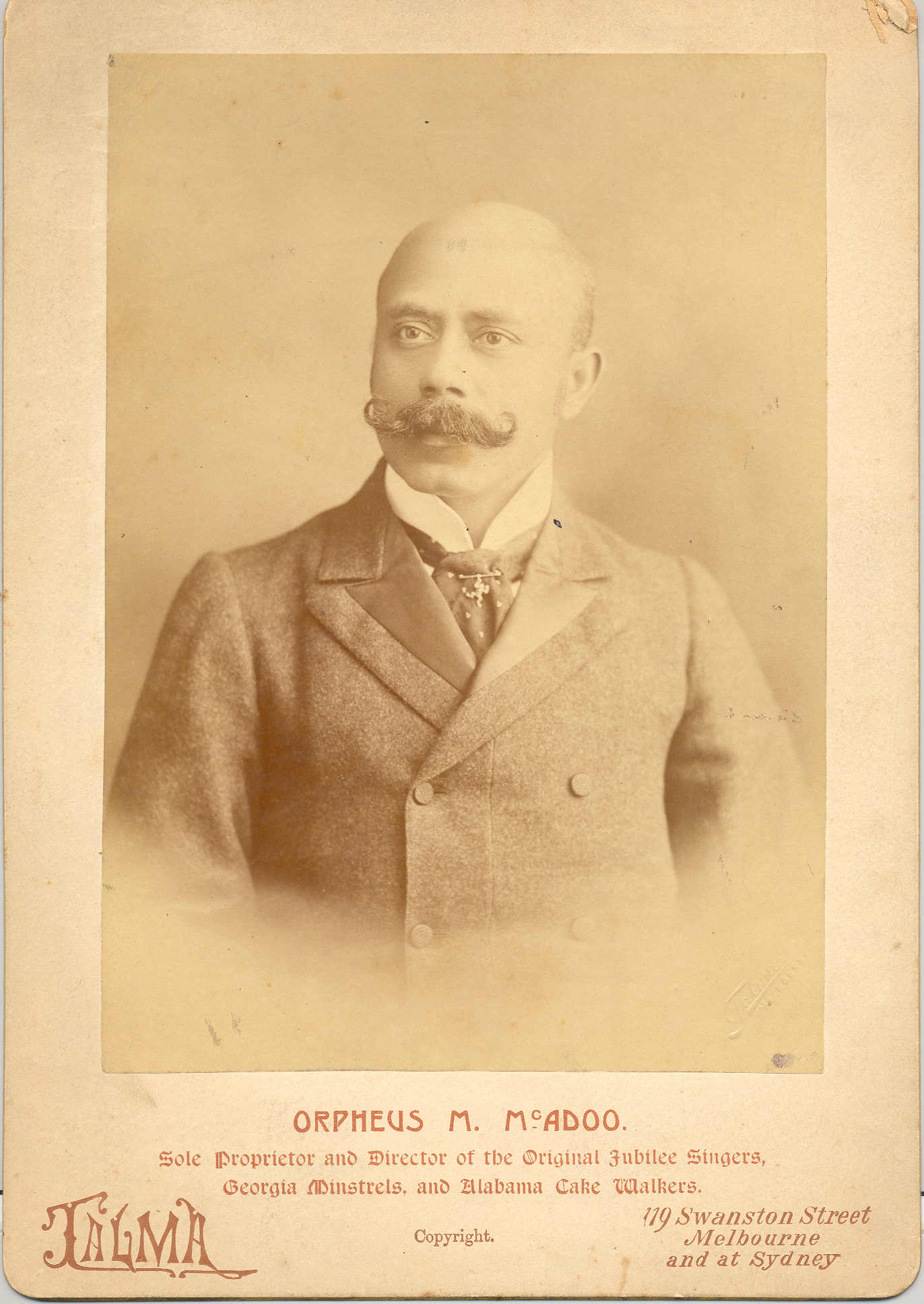 Card for the African-American impresario Orpheus McAdoo (1858-1900) made in Melbourne by Talma